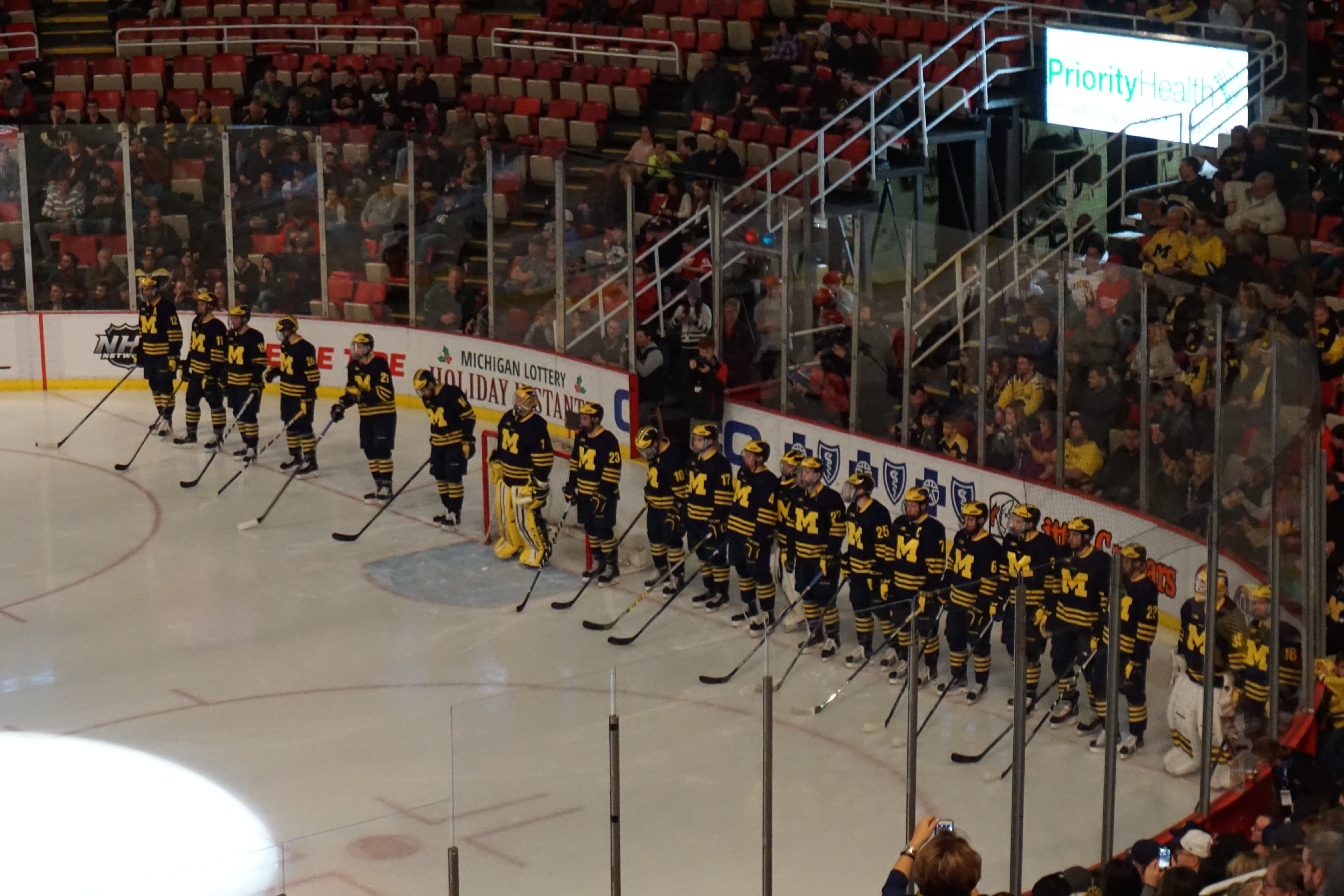 Michigan player introductions before the Michigan Wolverines vs. Michigan Tech Huskies men's ice hockey game (the 2015 Great Lakes Invitational championship game) at Joe Louis Arena in Detroit, Michigan (United States). Michigan won 4–2.